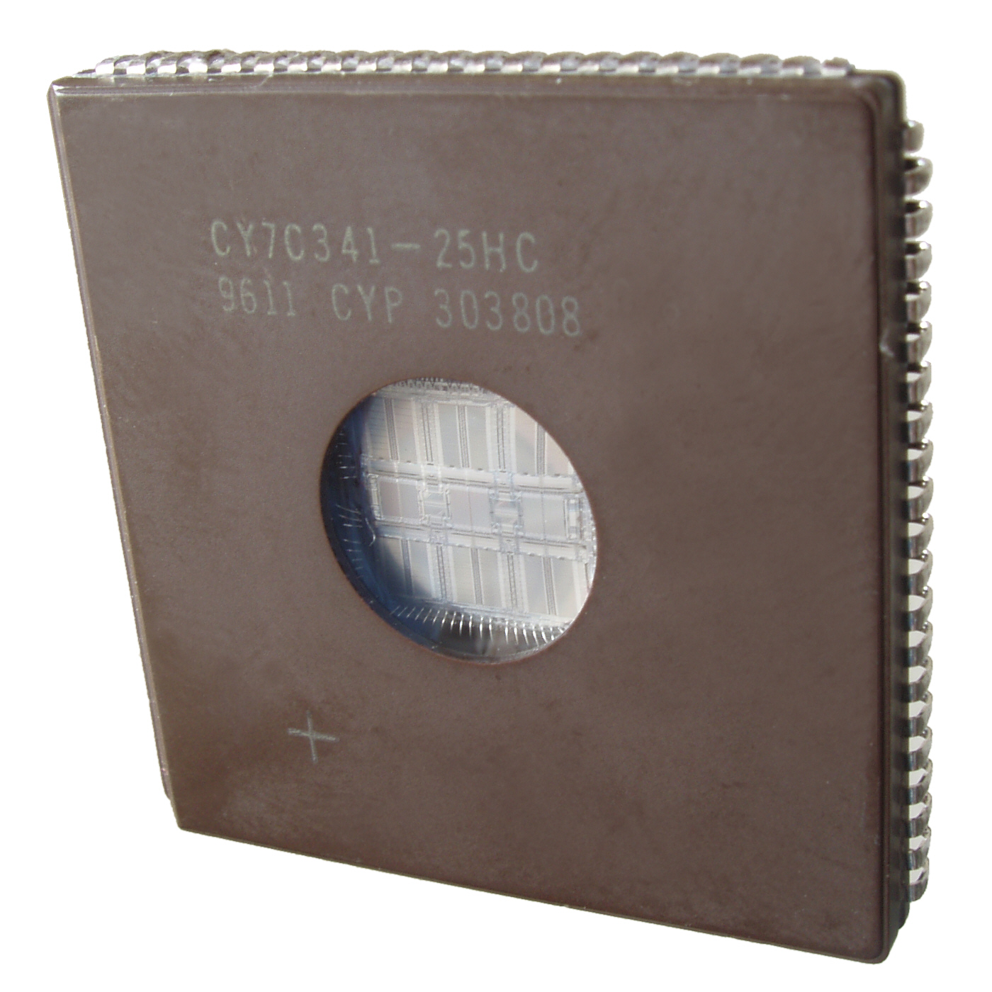 Ceramic LCC Package, 84 Pins, Cypress UV erasable, 1996